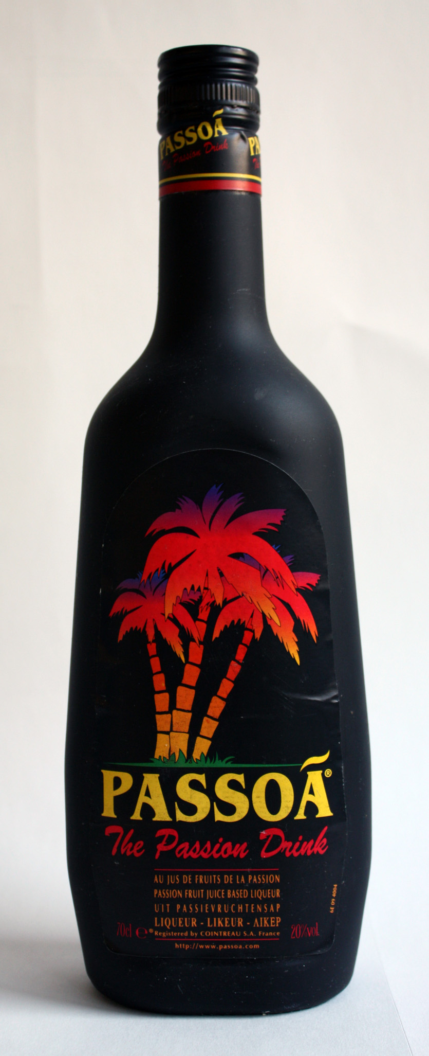 A bottle of Passoã, a Rémy Cointreau brand